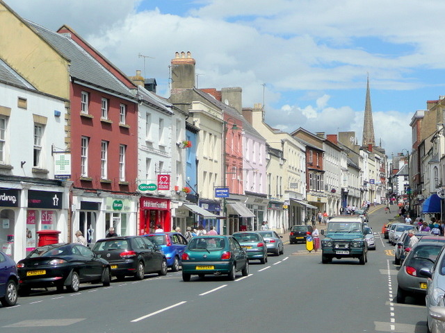 View up Monnow Street, Monmouth